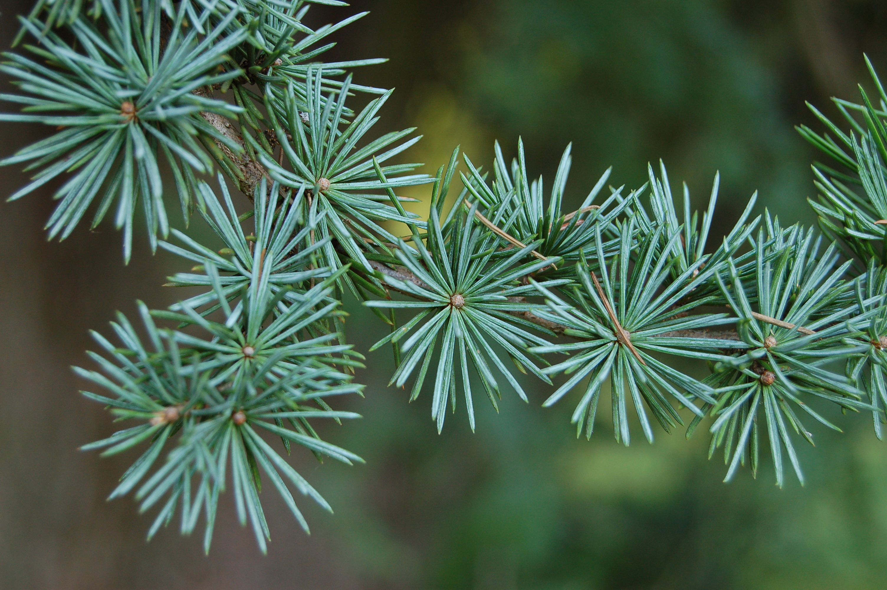 Photograph of the needles of an Atlas Cedaren (Cedrus atlantica en 'Glauca'). Photo taken at the Tyler Arboretum where it was identified.